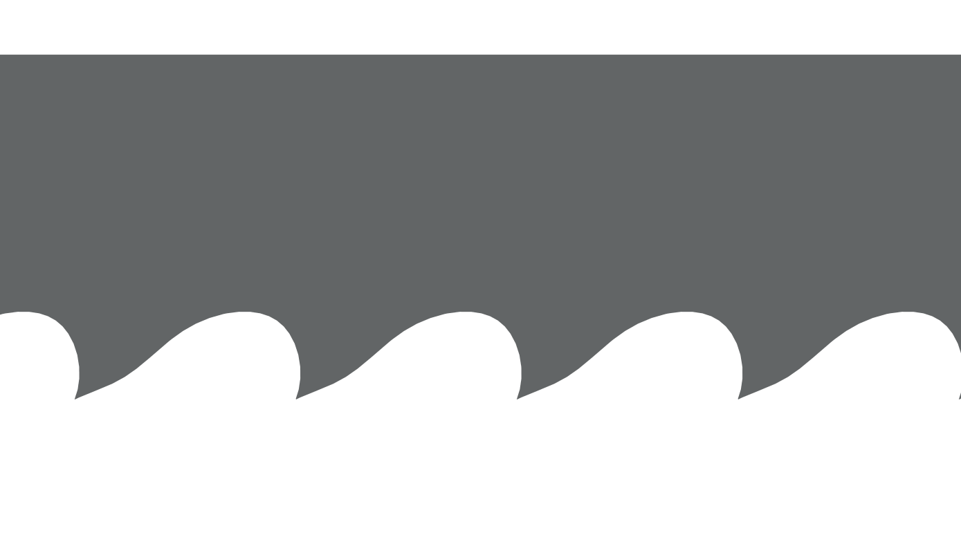 Sawing and separating processes